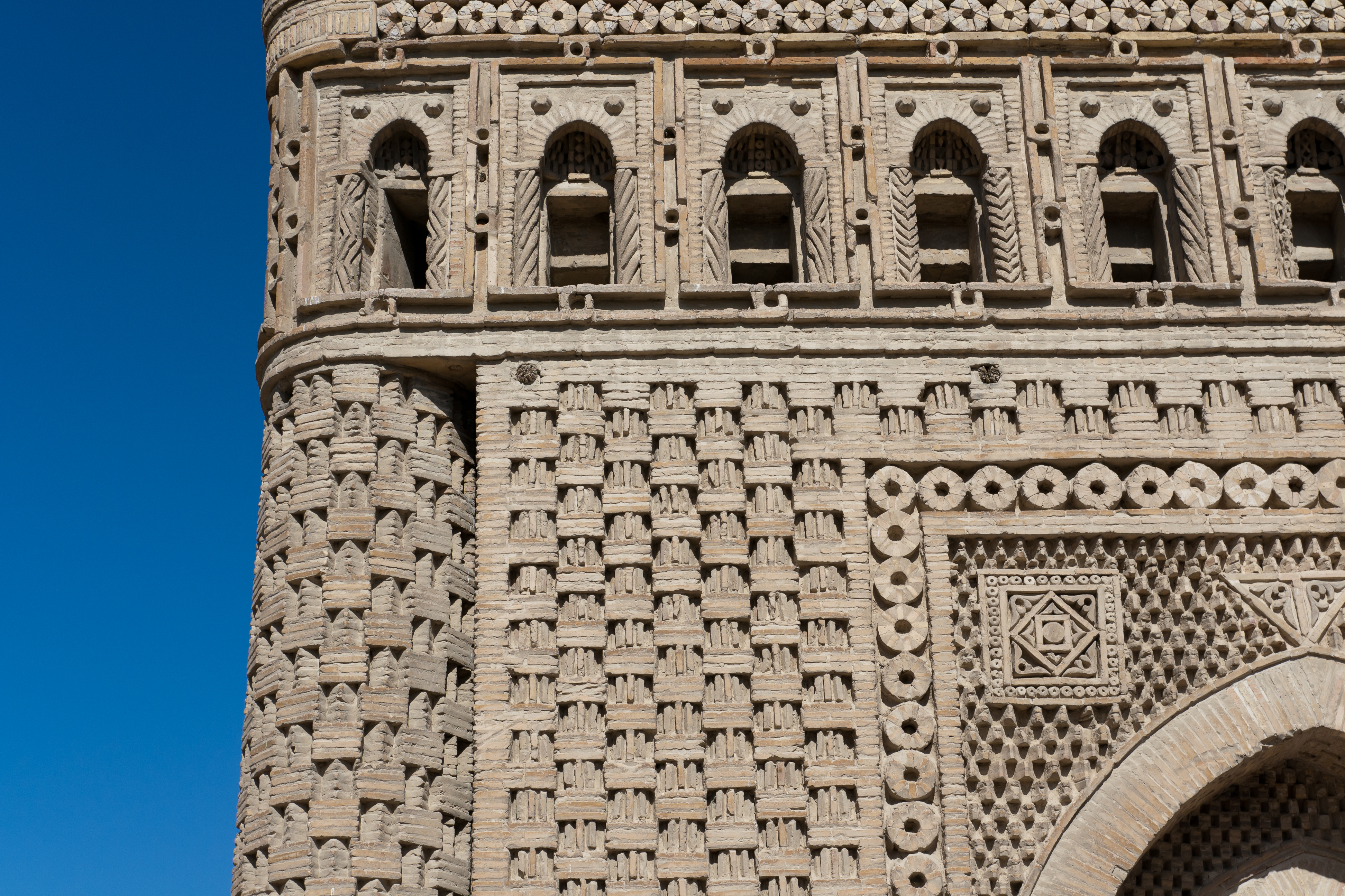 Samanid Mausoleum in Bukhara, Uzbekistan